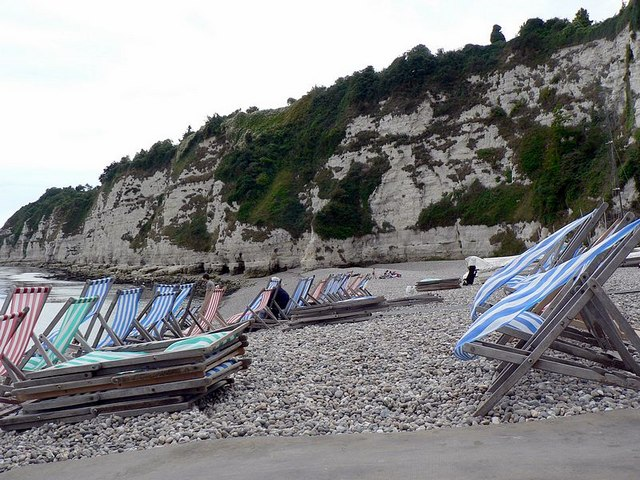 Cliffs and Deckchairs on Beer Beach, August. At quarter to 5 on a rather cool August afternoon, only one of the deckchairs is occupied, and the attendant has started to clear away. The dark area in the foreground is one of the long rubberised mats that form walkways across the pebbles.